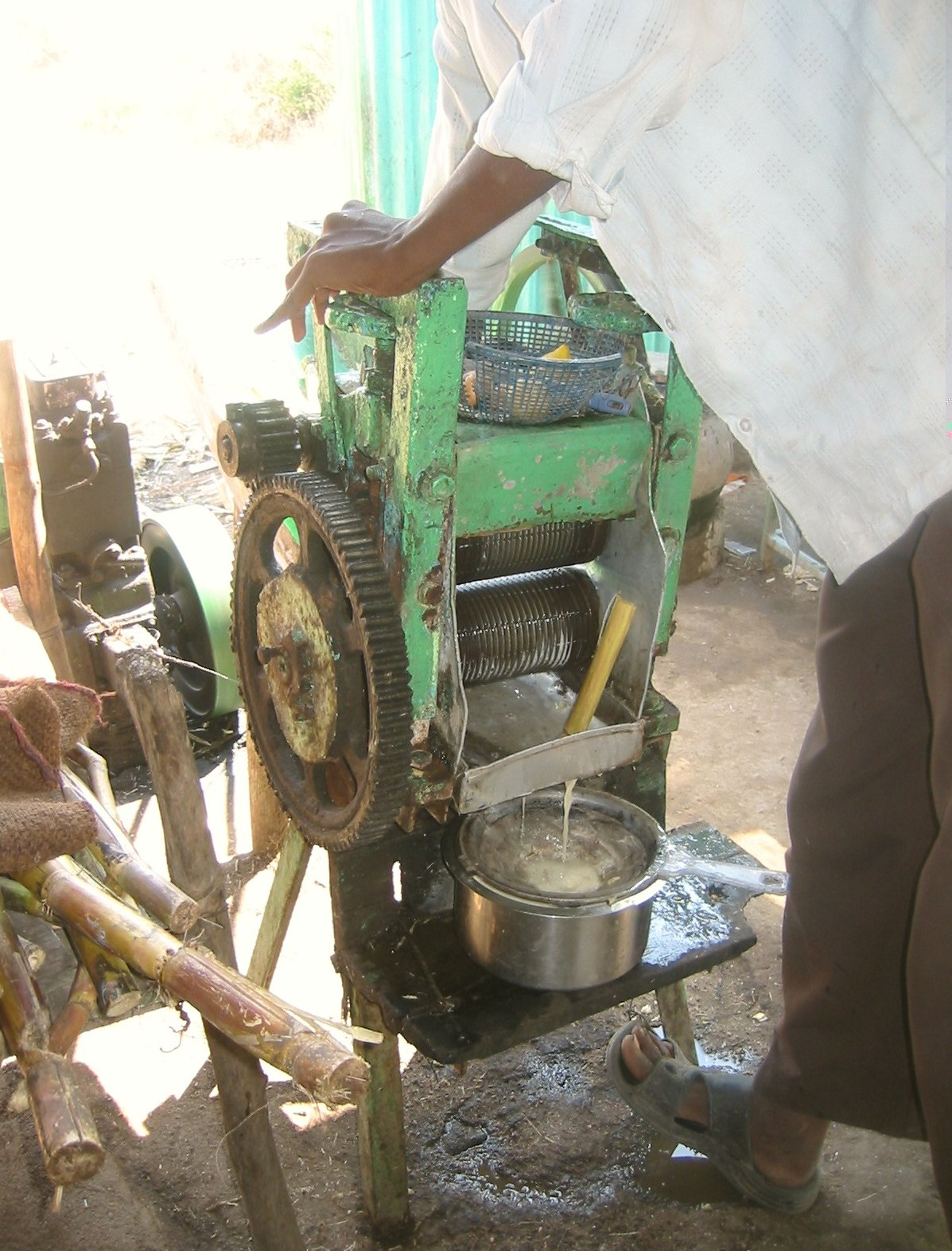 Sugar cane juice machine. Maharashtra, India, January 2007.